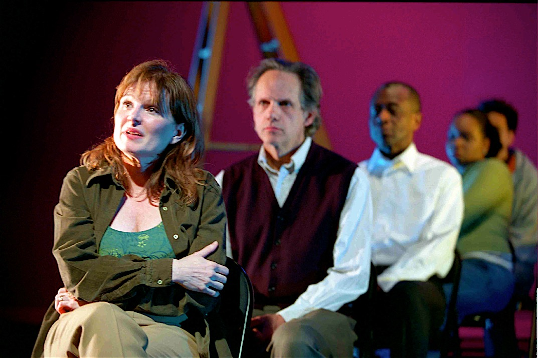 abundance